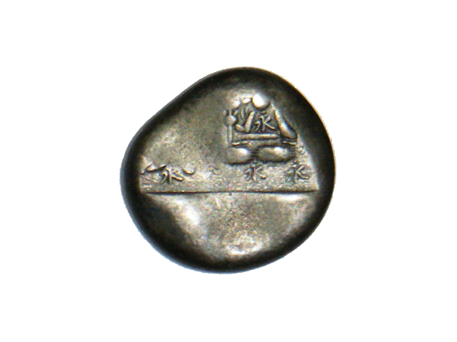 Eiji-mameitagin(silver bean)